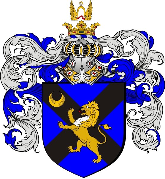 Dryer Coat of Arms was created specifically for Donald J. Dryer. The shield is free for any individual with the name Dryer, or by an individual who is a direct relation to James R. Dryer. The flying Spur Crest is representative of the Johnstone family connection (based on DNA evidence). The Coronet is a "prince du sang" Crown, receipient is descended in dynastic line from house de La Tremoille. Decendents are also entitled to the use of a the Canadian "loyalist" coronet (representing this family's lineage to Barthélemy Bergeron d'Amboise and Charles de Saint Etienne La Tour , one of the earlier settlers of Acadia who's line remained in New France after the "Expulsion"). The Shield color and Lion represent the Coat of Arms used by the Bergeron Family and the Crescent Moon is representative of the Bearers link to the Henderson Clan of Scotland.